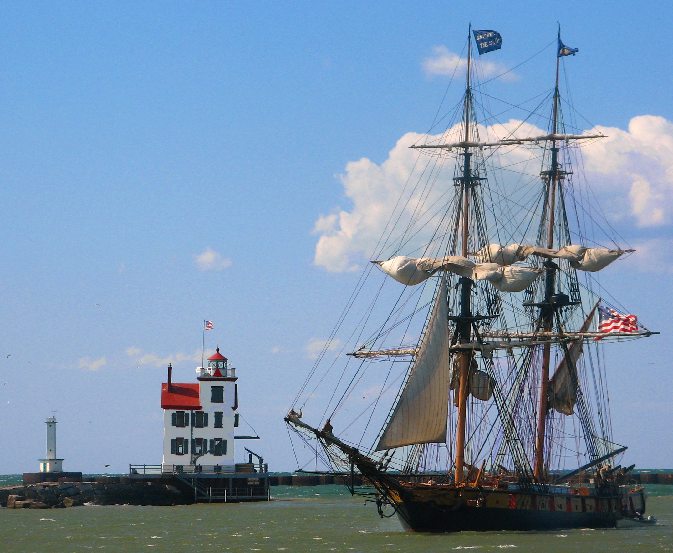 Saturday is A Taste of History in Lorain! Festivities include a farmers' market, Ohio wine tasting, tours of the U.S. Brig Niagara, tours of the Lorain lighthouse and a concert by Colin Dussault?s Blues Project. Click here for more details.